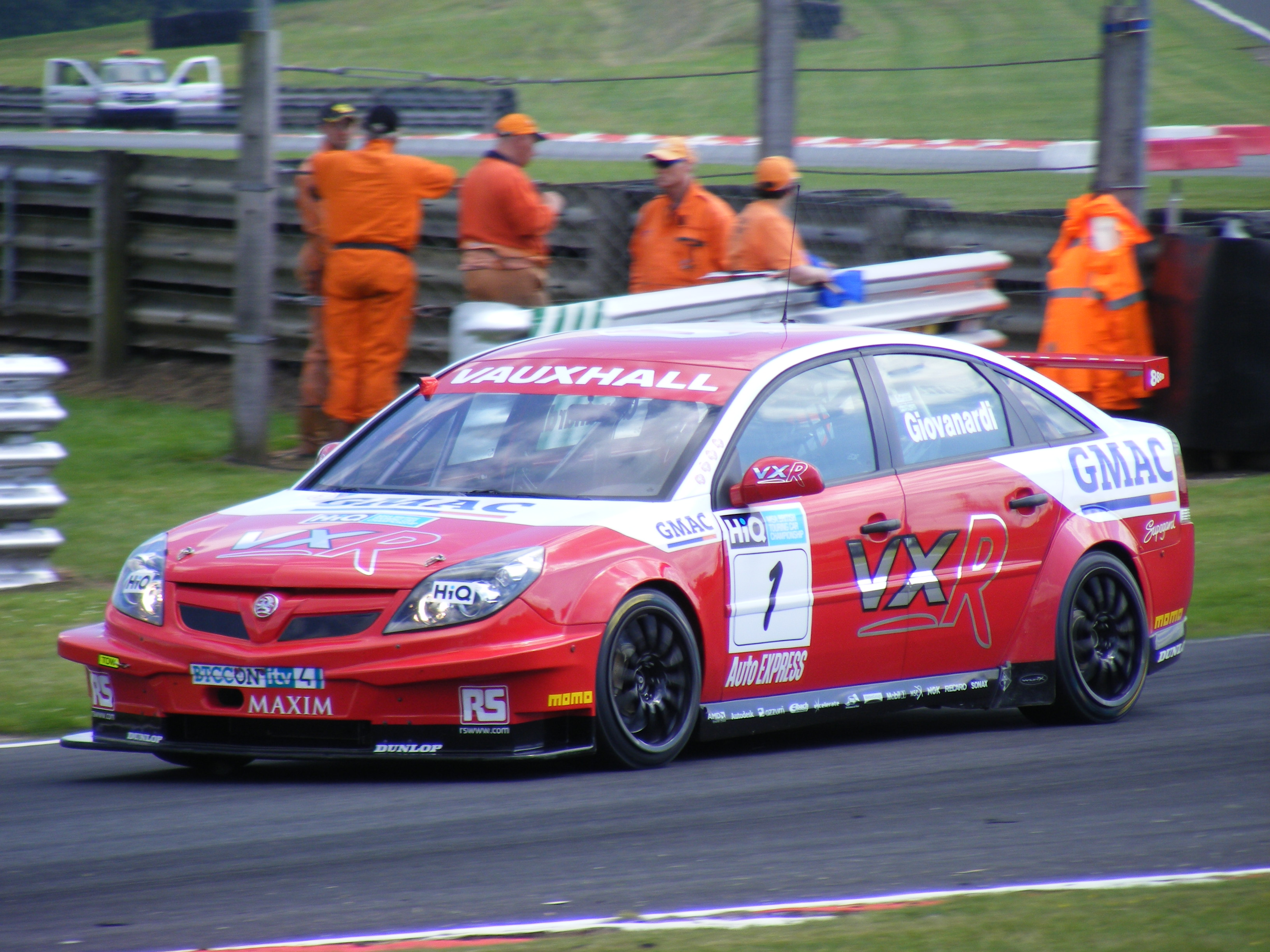 Fabrizio Giovanardi goes through Knickerbrook corner at Oulton Park during the BTCC qualifying session.